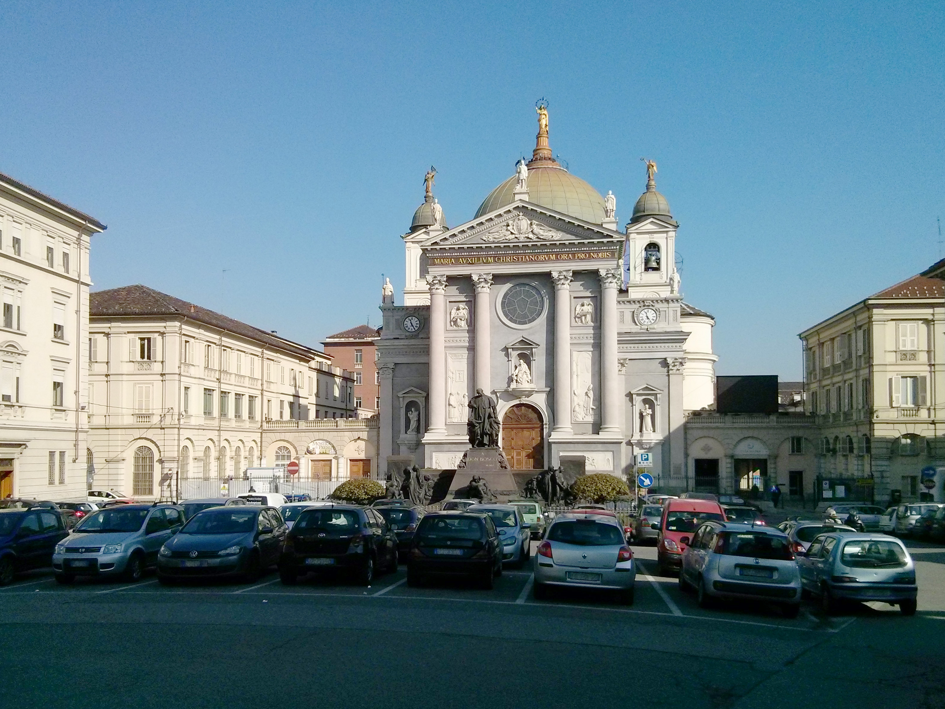 Basilica of Our Lady Help of Christians, Turin (Italy)